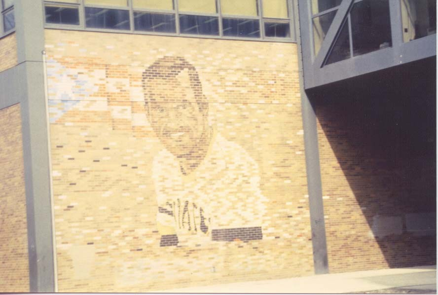 Brick mural with Roberto Clemente on a wall at Clemente High School on the corner of Paseo Boricua/Division St. and Western Avenue in West Town Community of the West Side district of Chicago, Illinois.